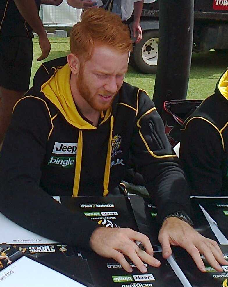 Todd Banfield signing autographs at the Richmond Family Day 16 February 2014